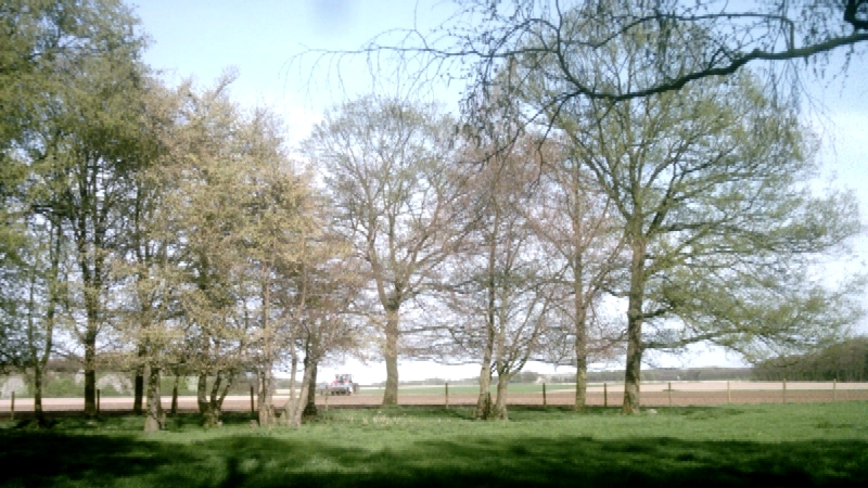 Trees beside a field in Bockerter Heide ("Bockert Heath") nature reserve, Viersen, Germany.